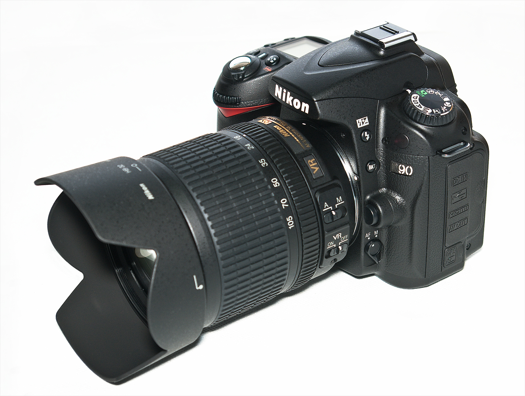 Nikon D90 Digital SLR Camera with AF-S DX 18-105mm f/3.5-5.6G ED VR Lens (2008) Details: 5 ISO: 200 Photographer: Bill Bertram